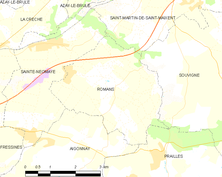 Map of French municipality Romans